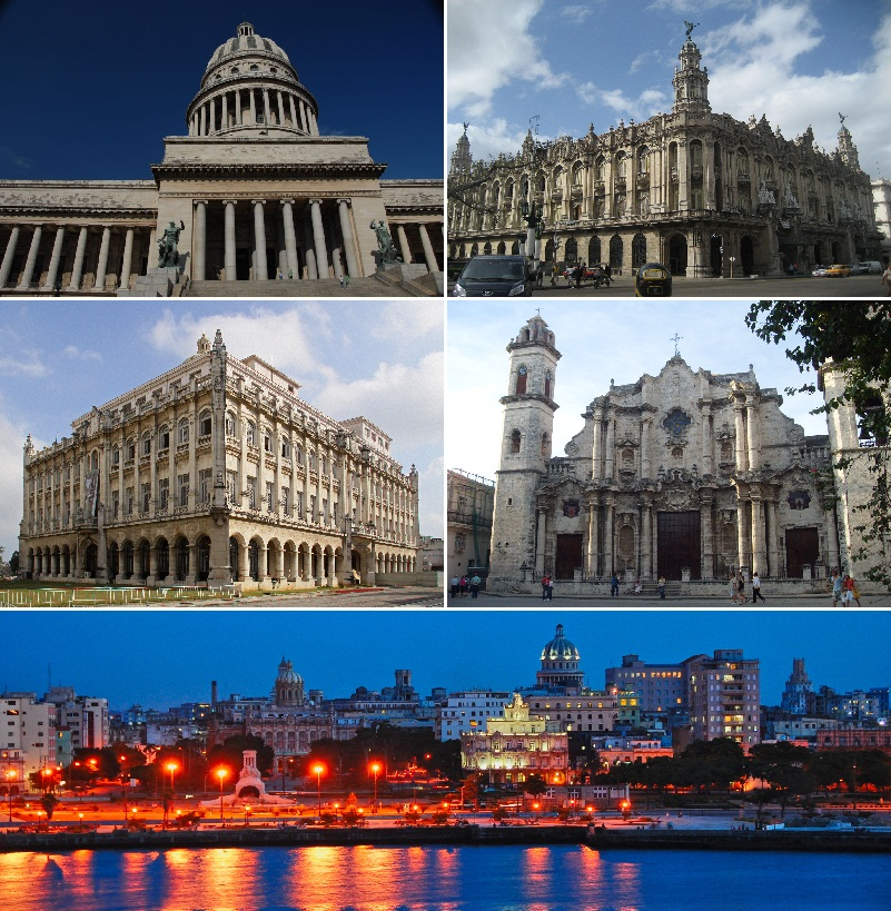 From top, clockwise: El Capitolio Great Theatre of Havana Havana Cathedral Museum of the Revolution. Panoramic view of Old Havana cityscape